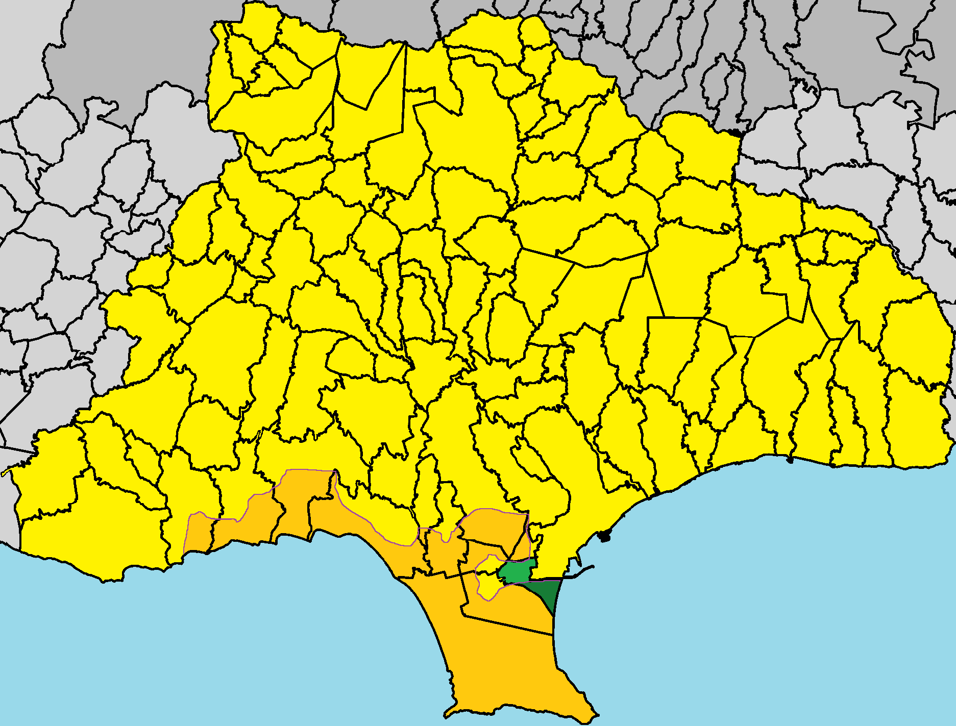 Tserkezoi in Limassol District.